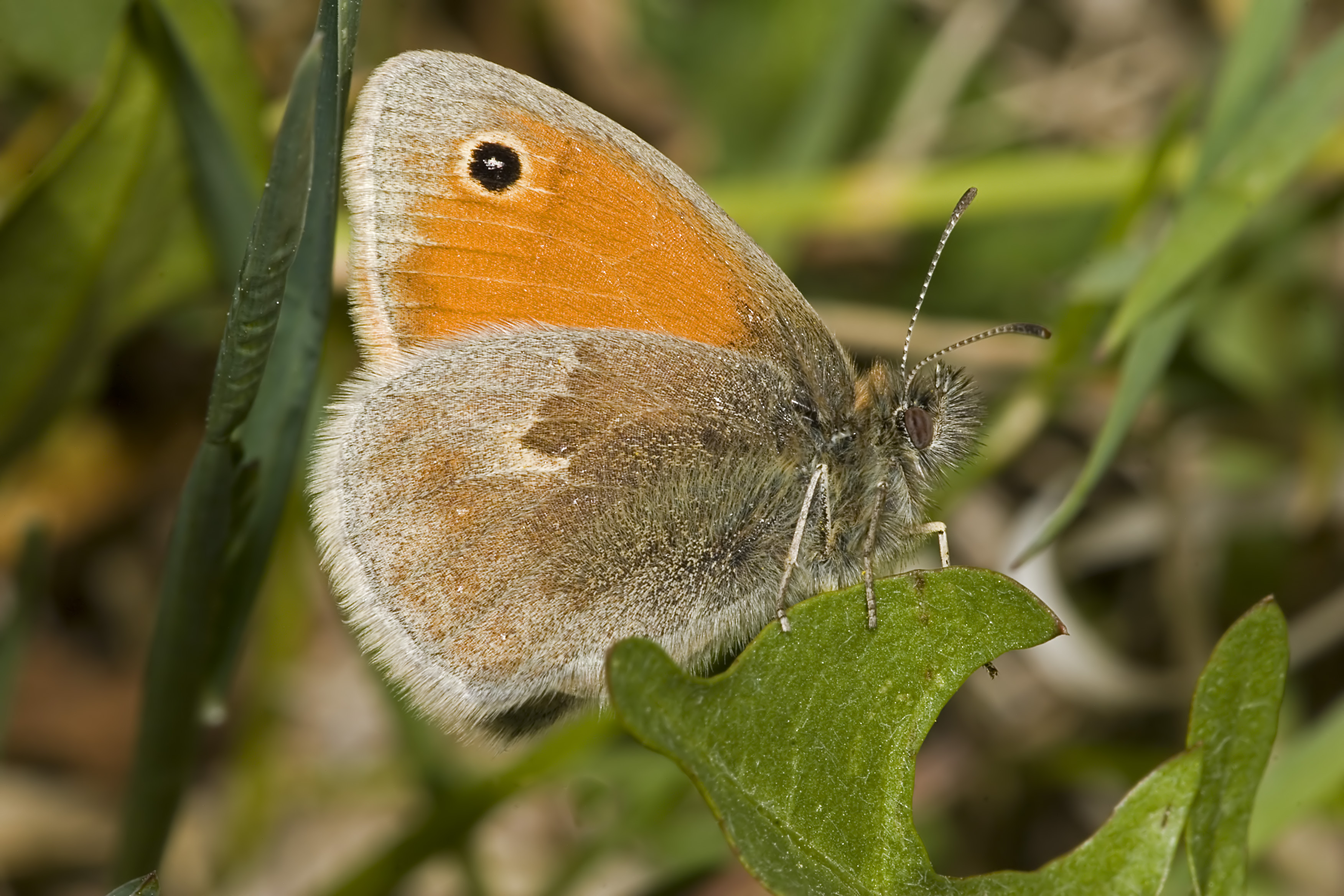 Small Heath